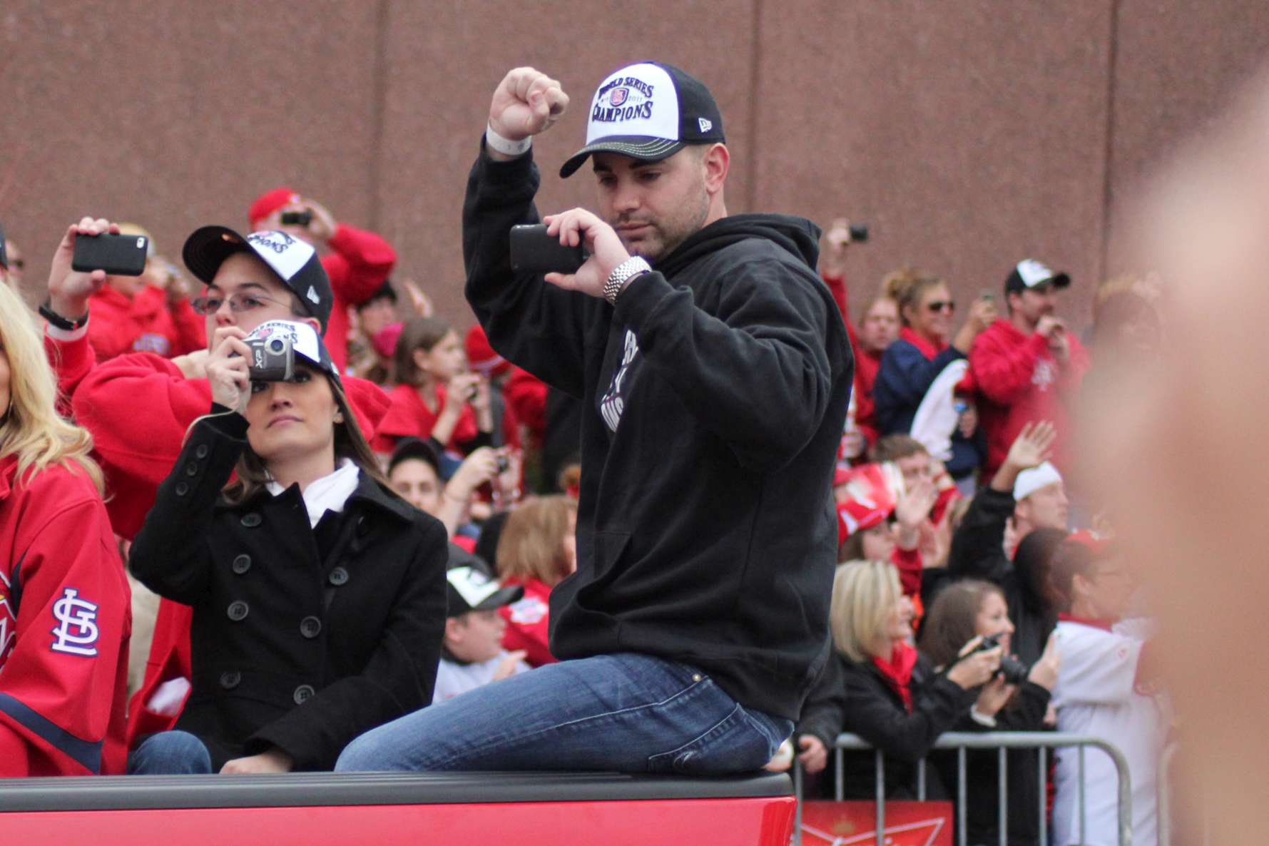 Marc Rzepczynski during the 2011 World Series victory parade Saint Louis Oct 30, 2011.